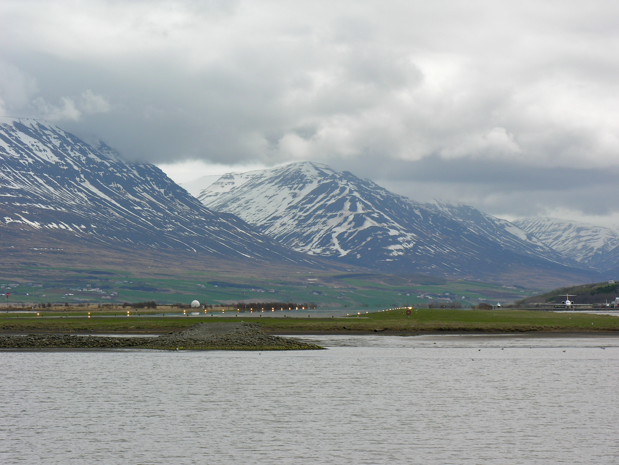 Iceland, impressions along road 1 (Hringvegur)